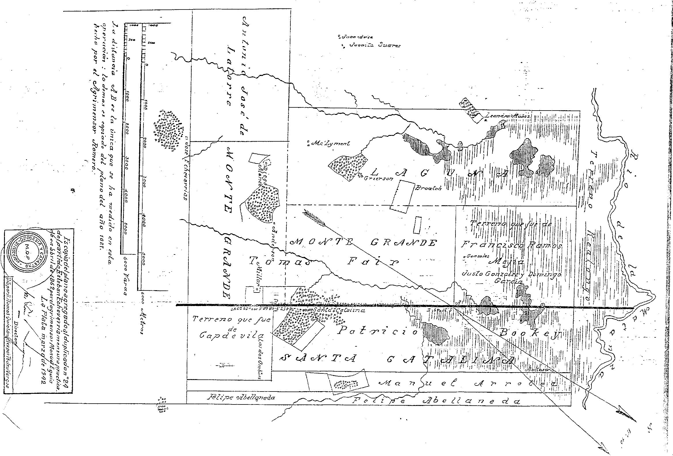 Mapa de la antigua Laguna de Rocha